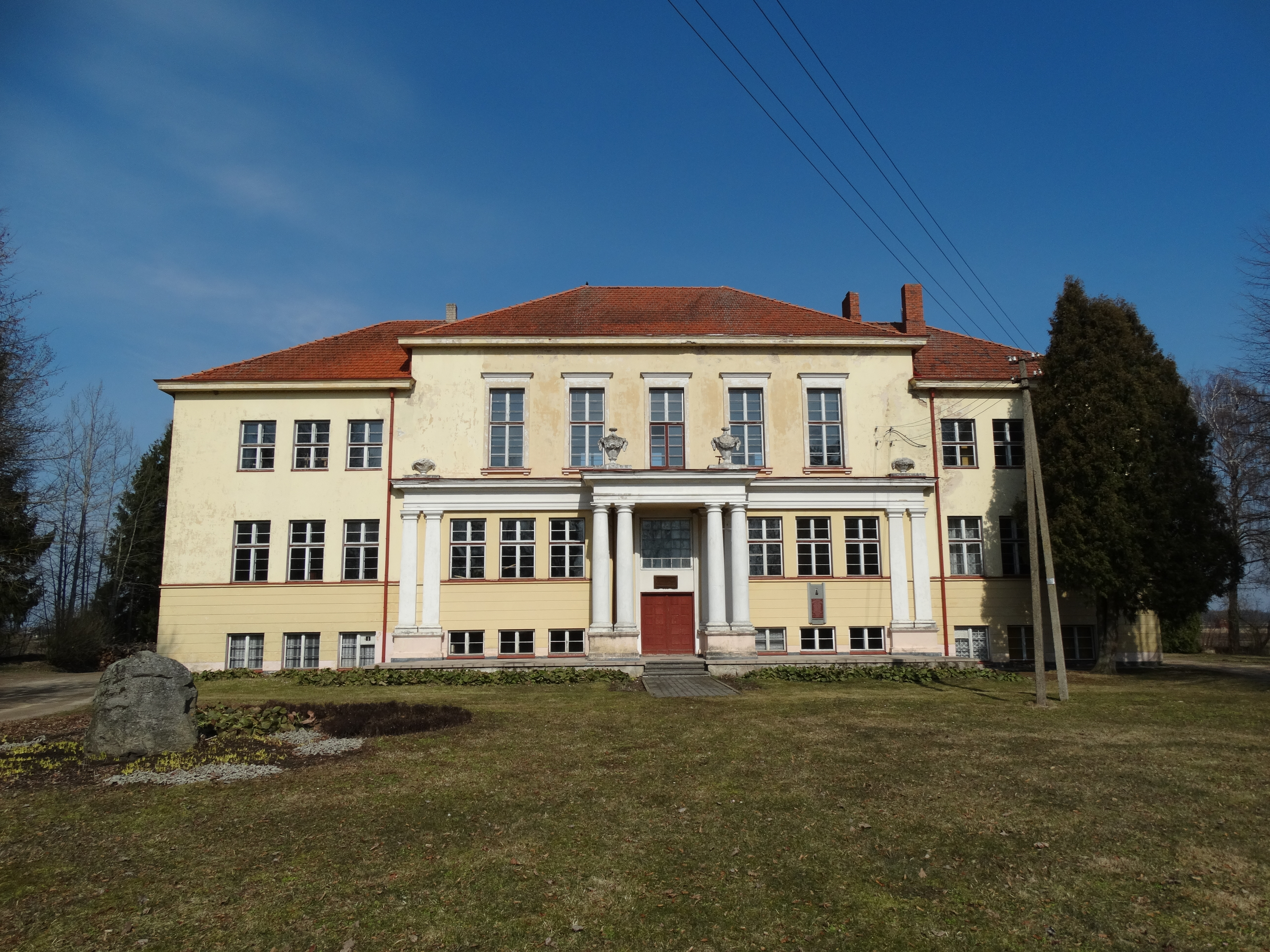 Užulėnis, Ukmergė district, Lithuania